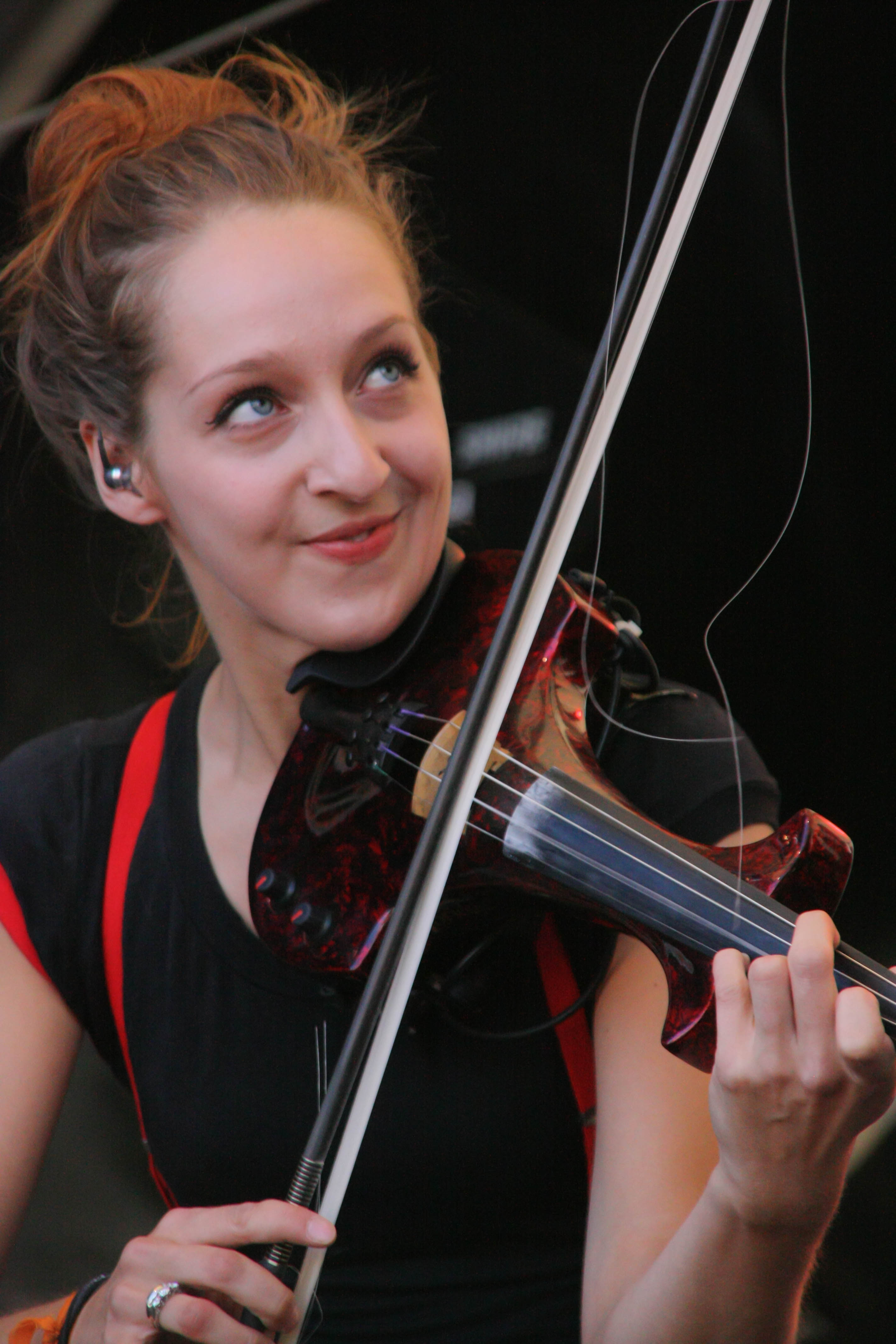 Russkaja at Sonnenrot Festival (Eching/Germany)